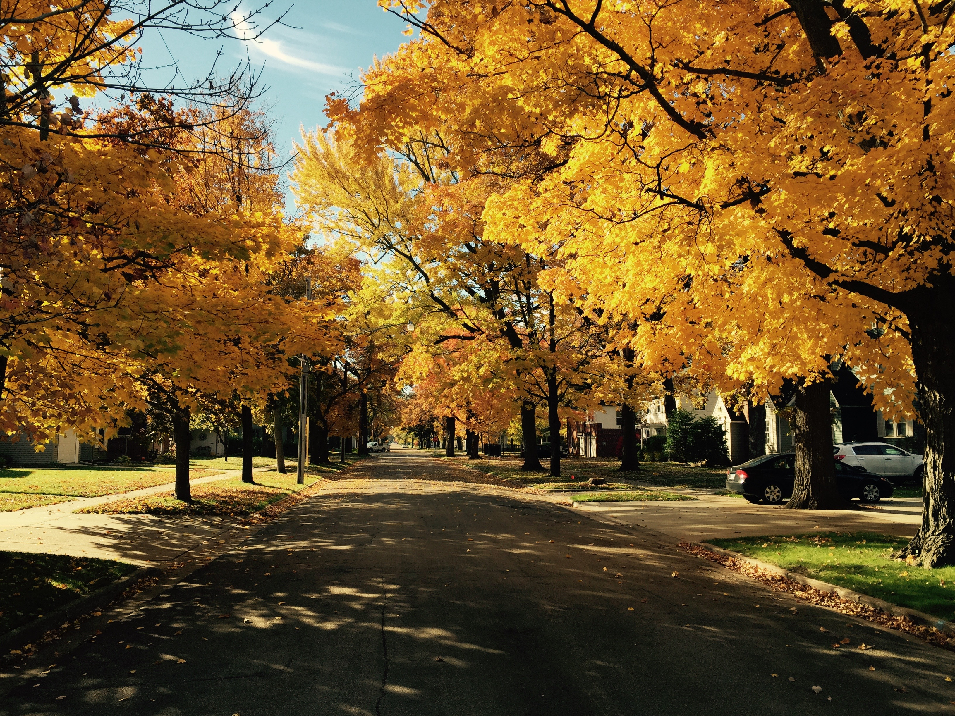 A neighborhood in Northwest Austin